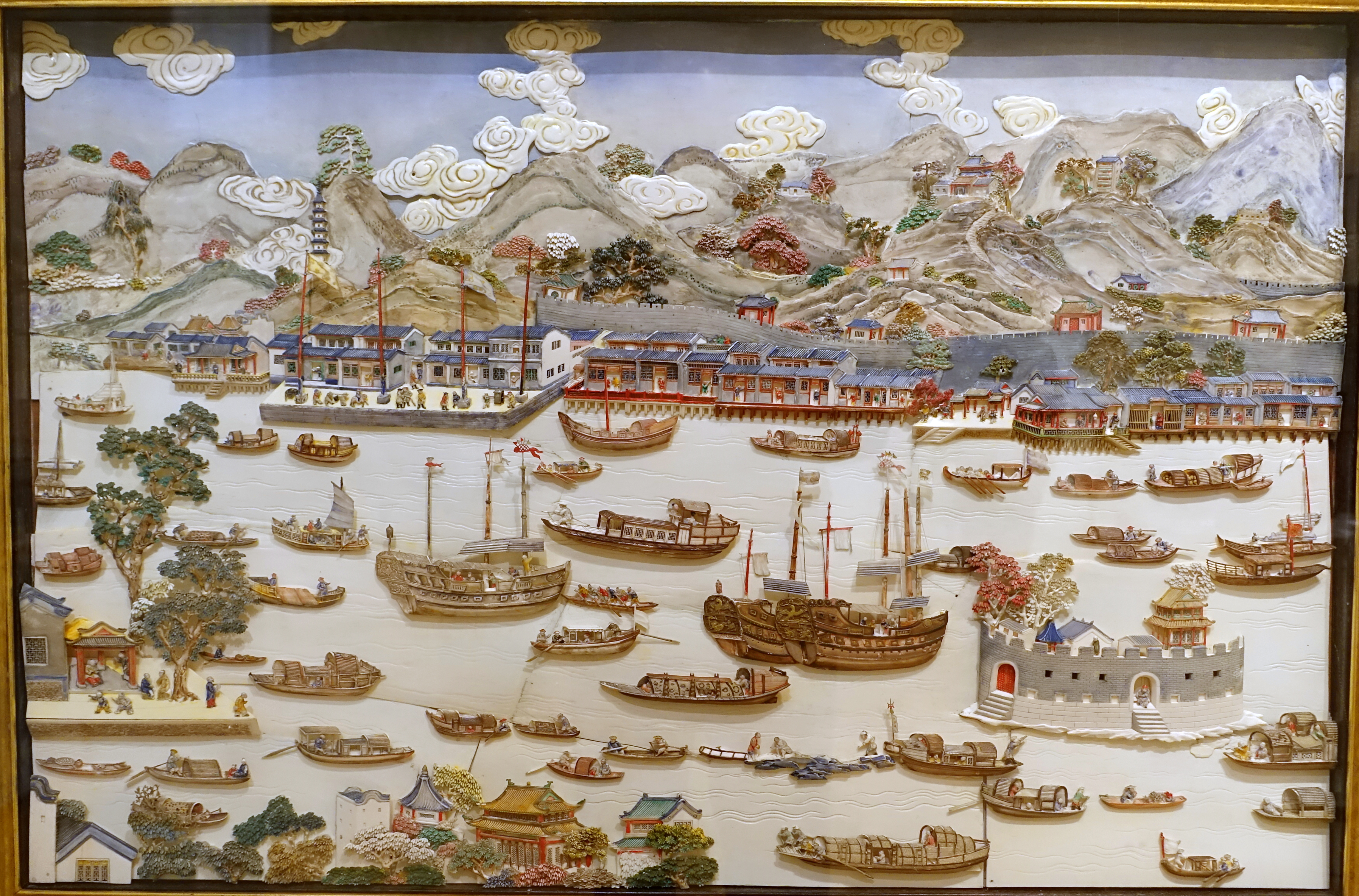 Exhibit in the Peabody Essex Museum - Salem, Massachusetts, USA.